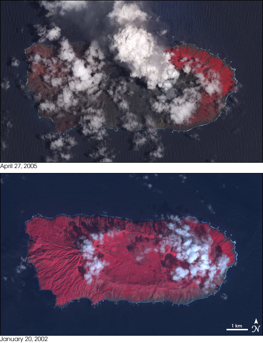 Two pictures of the island and volcano Anatahan (Northern Mariana Islands).